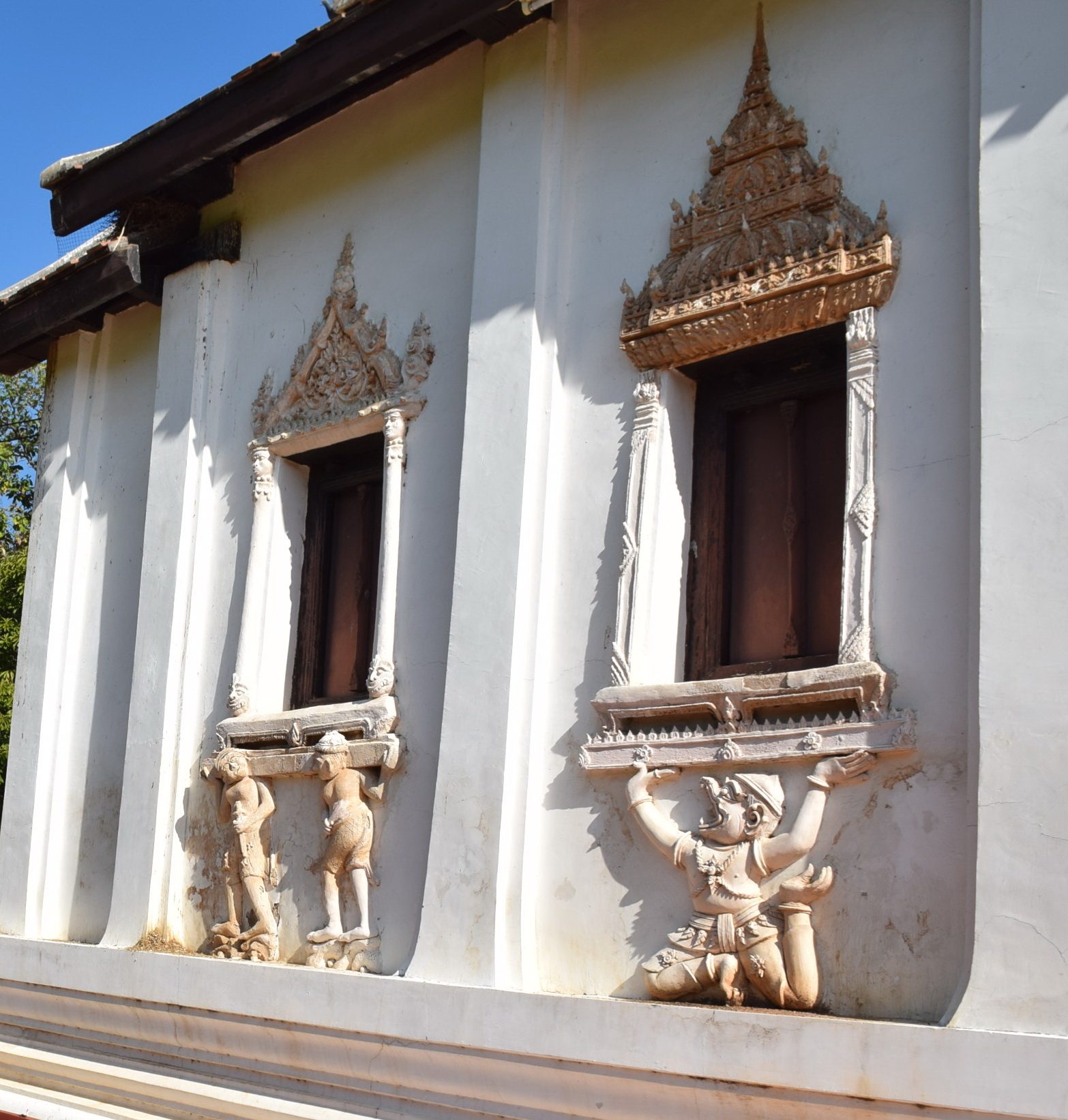 Wat Phra Fang